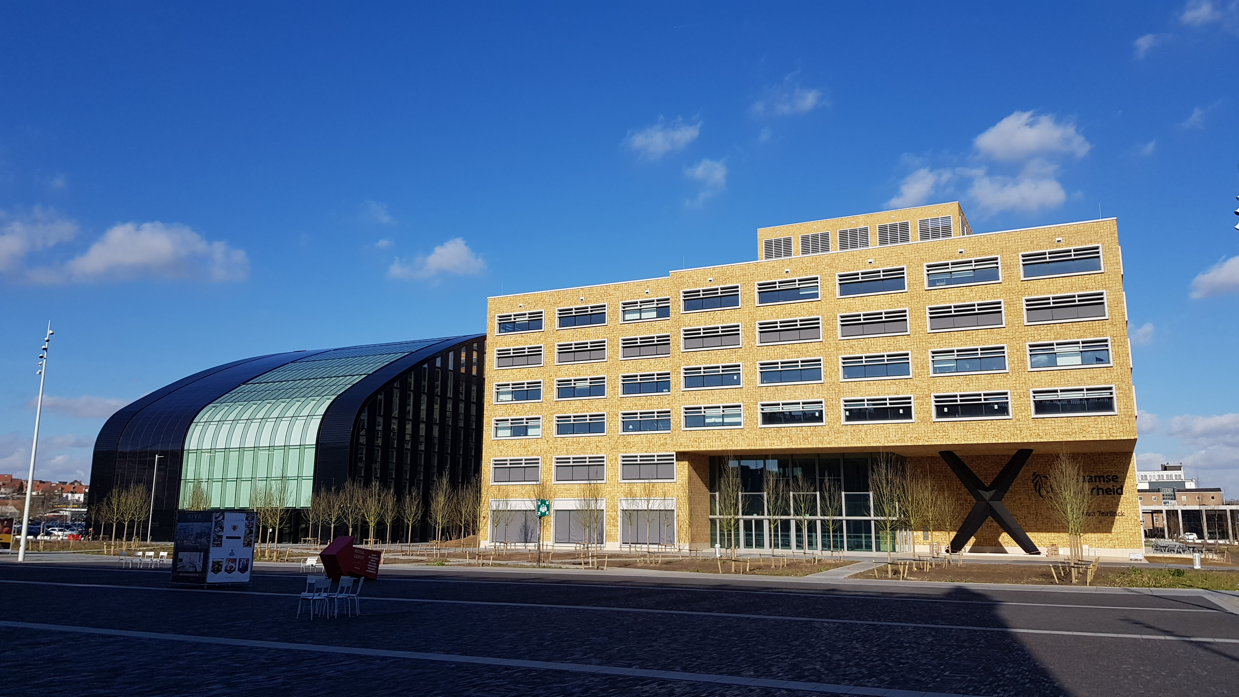 Brussels Environnement building, Tour & Taxis, Brussels, Belgium